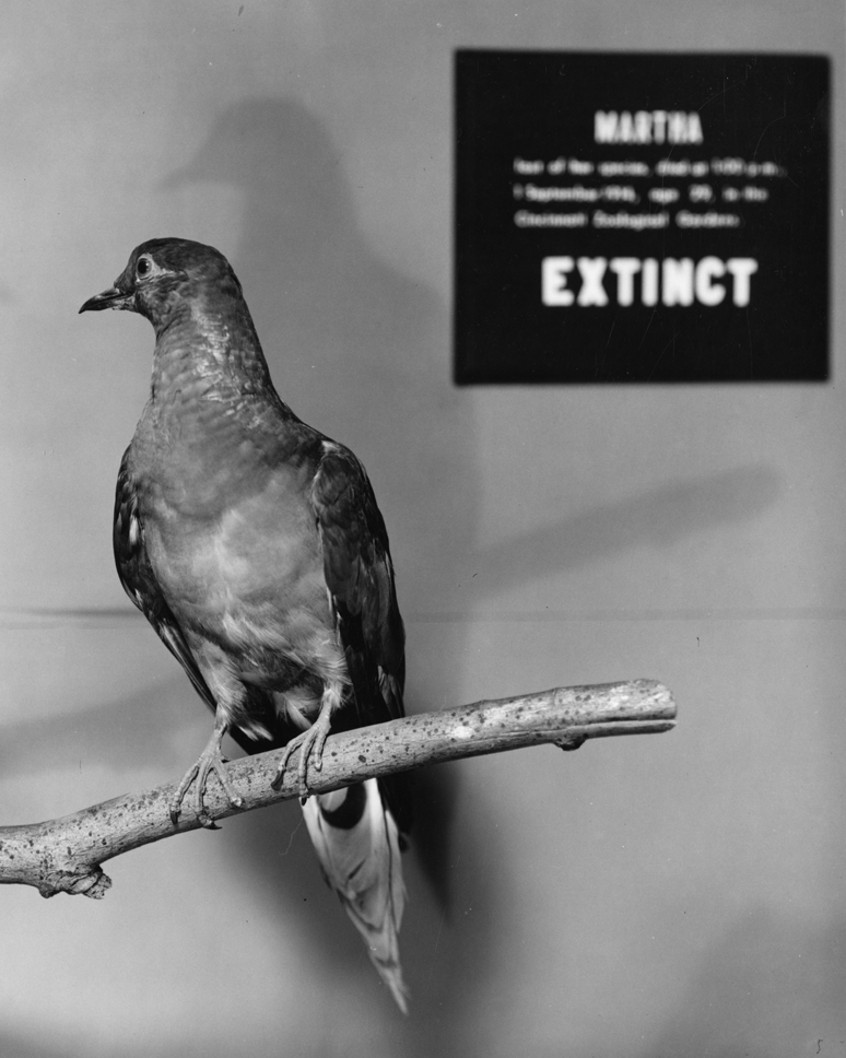 A passenger pigeon Martha (named after Martha Washington), the last survivor of an American species that numbered in the millions prior to the 1880's, died in the Cincinnati Zoo in 1914. Her body was donated to the Smithsonian Institution and brought to the United States National Museum, now the National Museum of Natural History, for permanent preservation. Mounted in a display case with this notation: "MARTHA, last of her species, died at 1 p.m., 1 September 1914, age 29, in the Cincinnati Zoological Garden. EXTINCT", this bird documents an unhappy chapter in the conservation of wildlife. 1967.